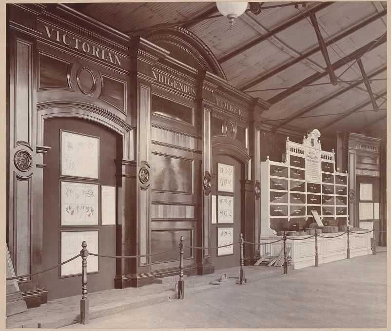 Victorian Timber Display - Greater Britain timber exhibition. circa 1890